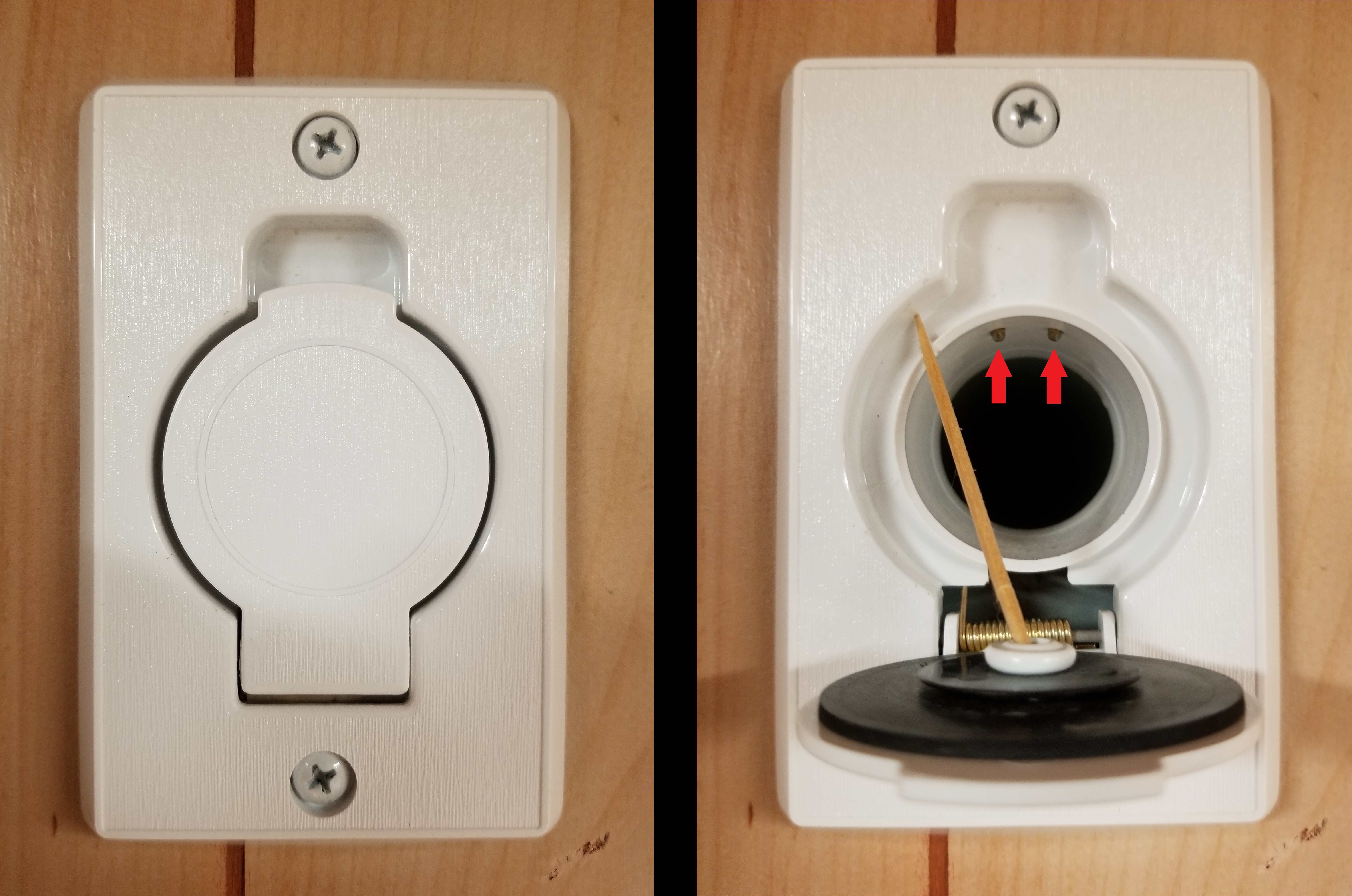 Left: standard, non-electric central vacuum inlet. Right: when a hose is inserted into an inlet, or the switch on a hose is turned on, two low-voltage electrical contacts (highlighted in red) are bridged, signalling the power unit to turn on (a toothpick was used to hold the spring-loaded door open for this image)